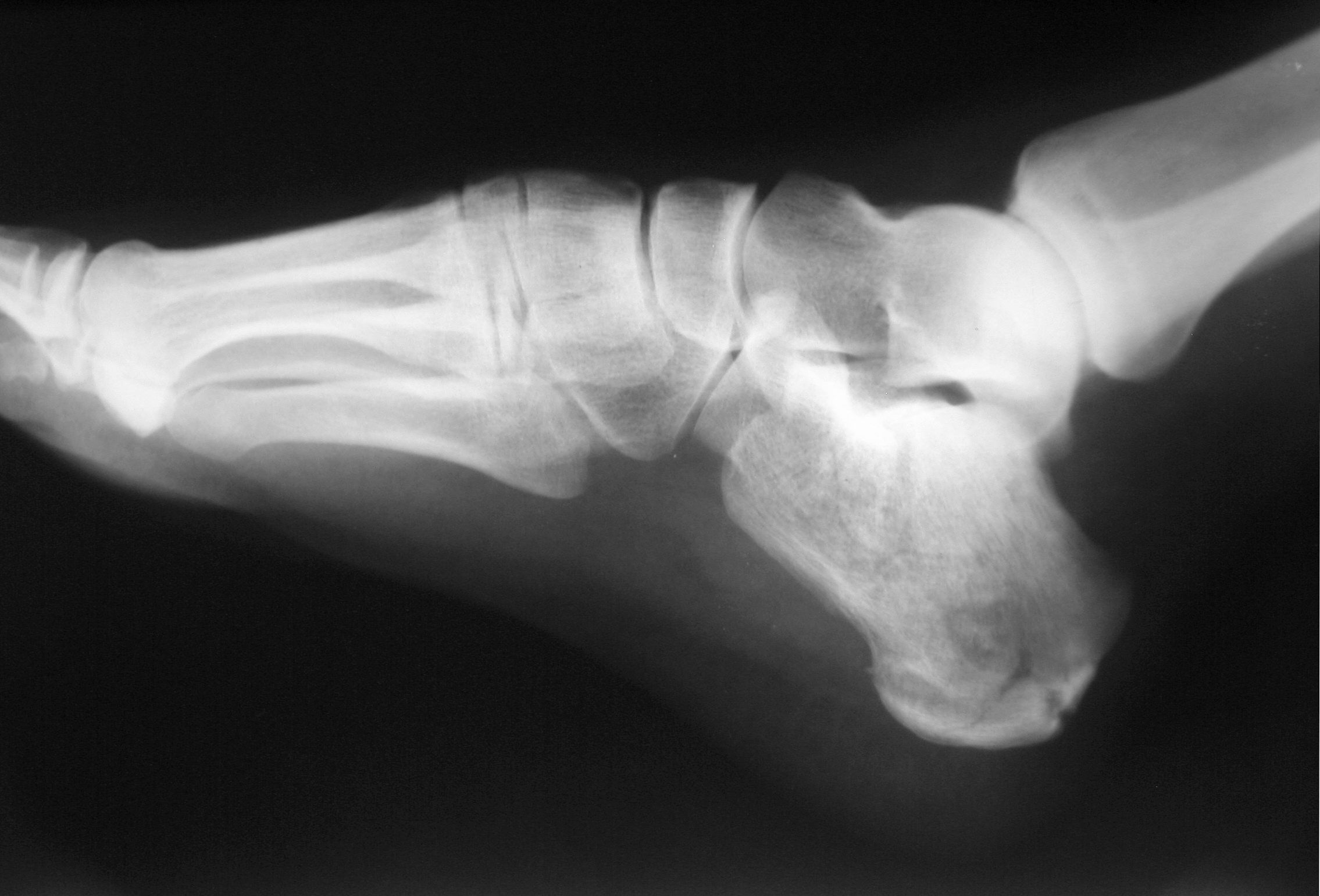 Calcaneus (heel bone) fracture X-ray